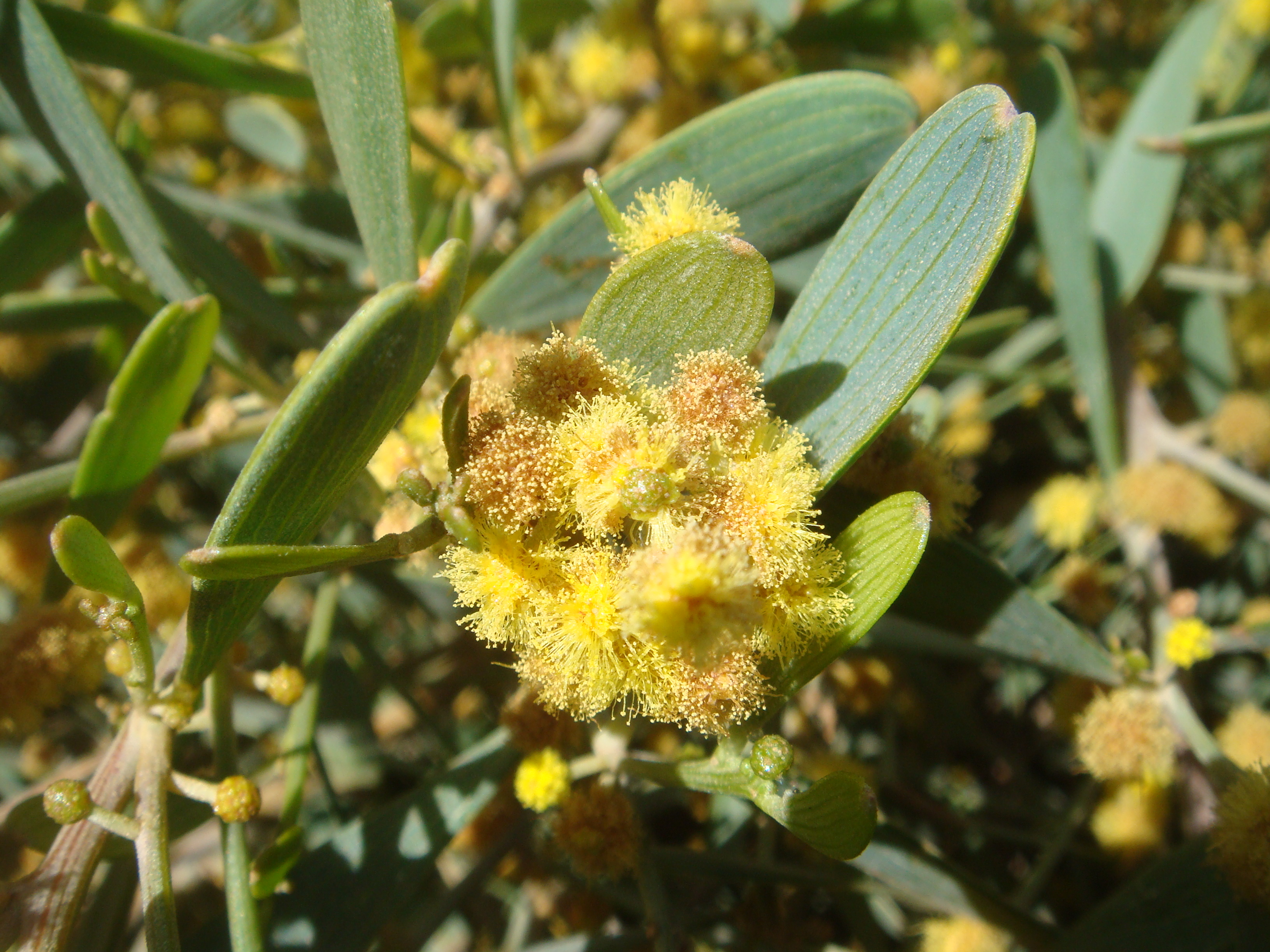 Simmondsia chinensis, cultivated, Arizona State University, Tempe, Arizona